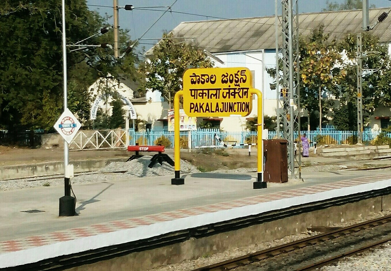 pakala jn sign board